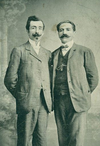 General Andranik Ozanian (right) with writer and poet Ruben Zardaryan, Armenian Genocide victim, in Yerevan in 1915.